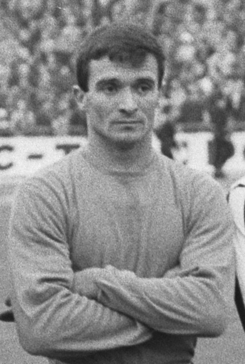 Milutin Šoškić